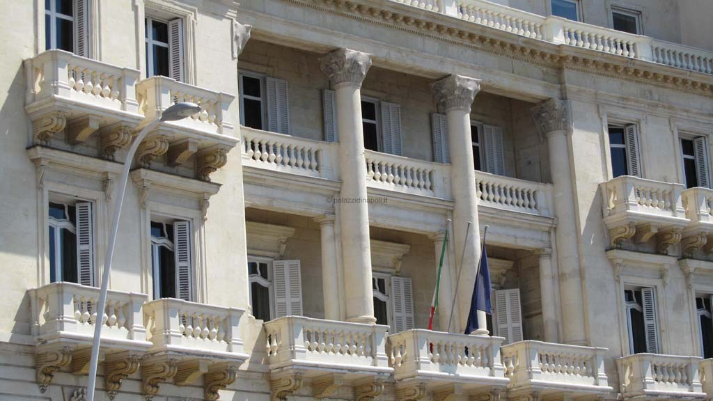 Palazzo du Mesnil